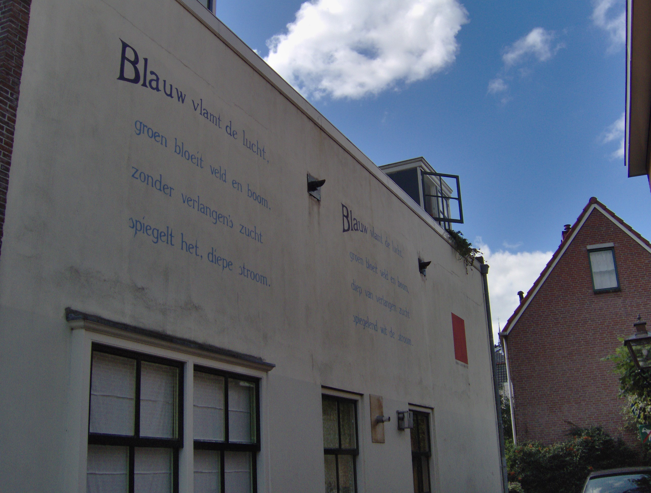 The poem Blauw (vlamt de lucht) of the Dutch poet Herman Gorter on a wall of the building at the Uiterstegracht 62 in Leiden, The Netherlands